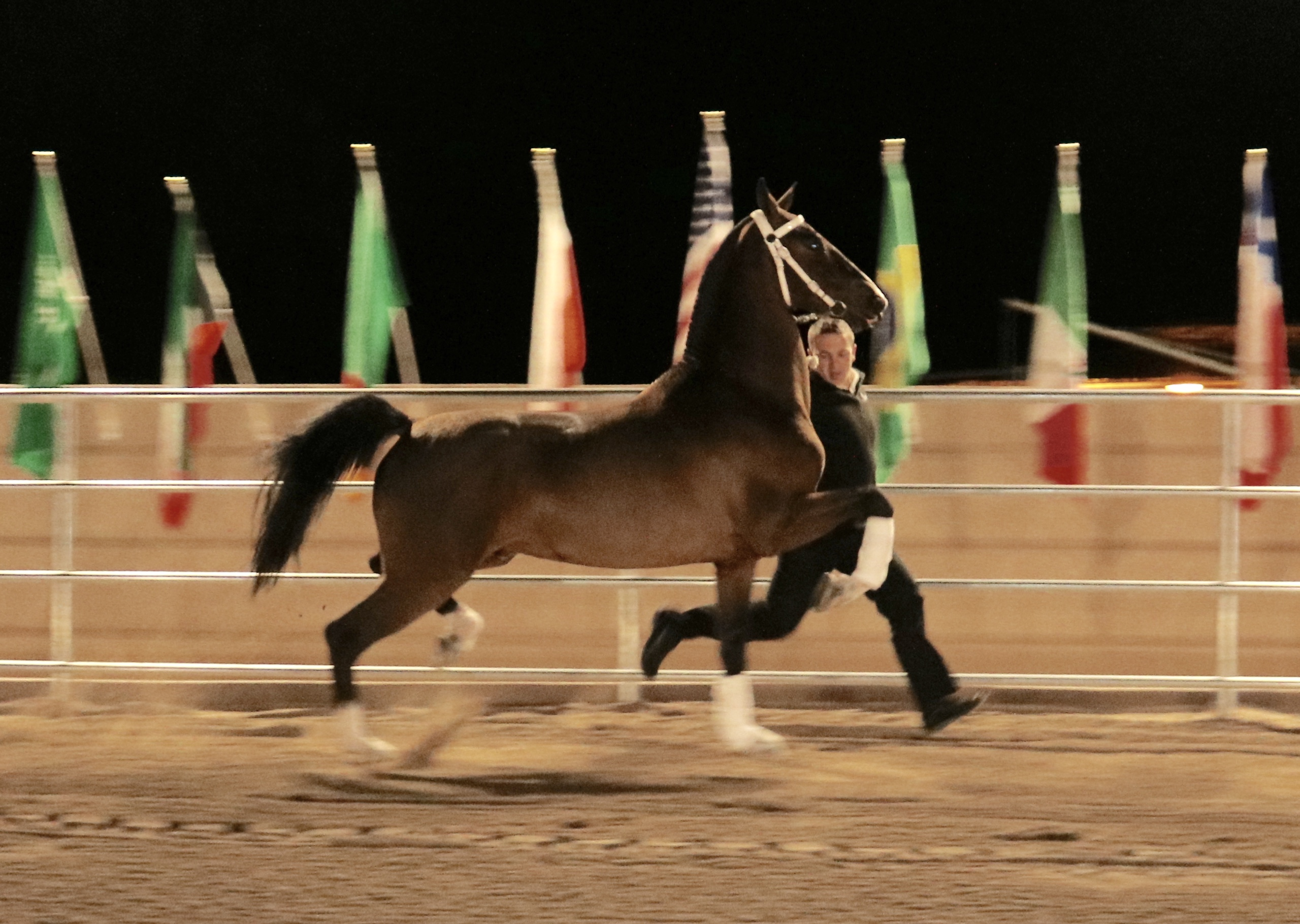 Dutch Harness Horse stallion imported to the United States and exhibited at a barn tour in Scottsdale, Arizona